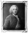 Johan Jacob Graver